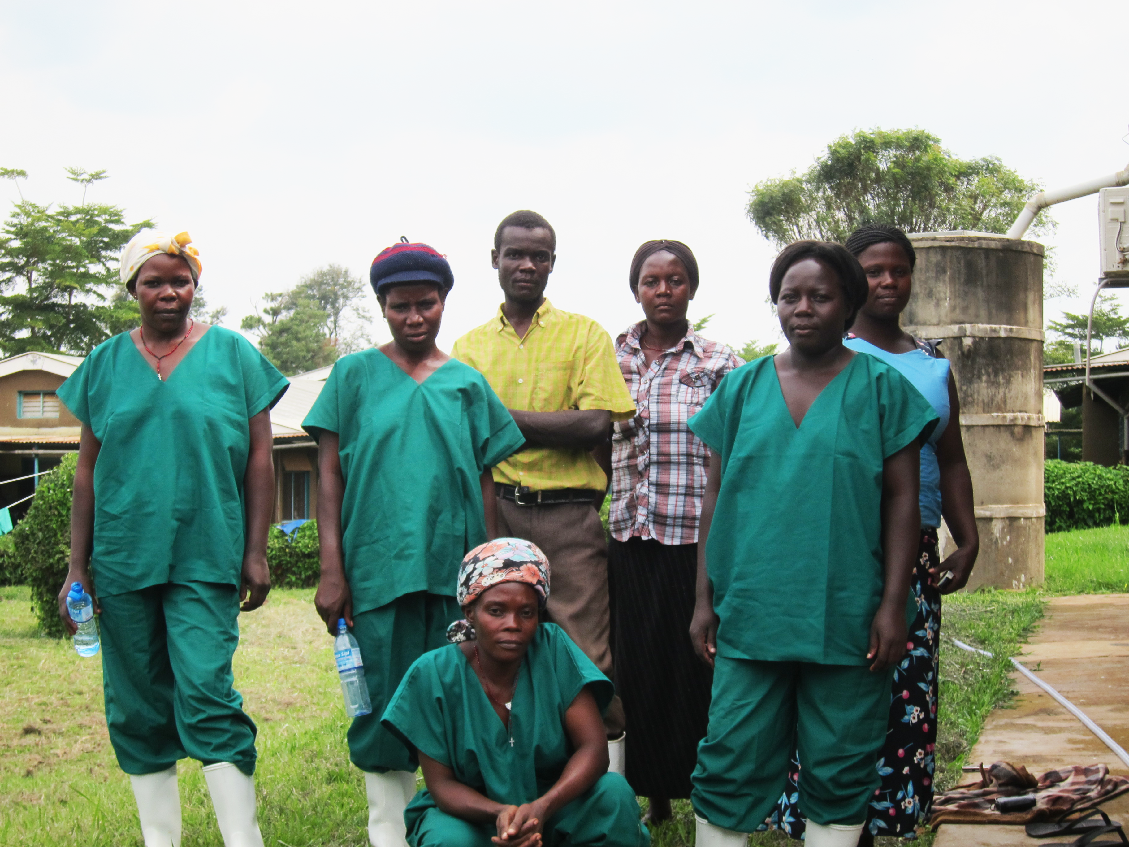 This image was taken on the grounds of Kagadi Hospital, in the Kibaale District of Uganda, during that nation’s July - August 2012, Ebola outbreak. Dressed in their green-colored scrubs, and white rubber boots, these were members of the hospital staff, who had stopped to pose for this quick portrait. Note the somber expressions each staff member displayed, reflecting the seriousness of their plight. According to the World Health Organization (WHO), it was inside the Kibaale District that the 2012, Ugandan Ebola outbreak began.